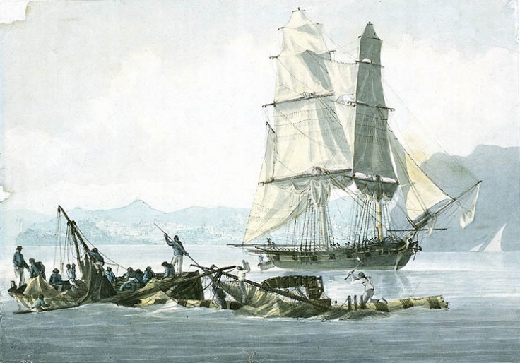 "HMS Speedy falling in with the wreck of Queen Charlotte March 21 1800 at Leghorn".